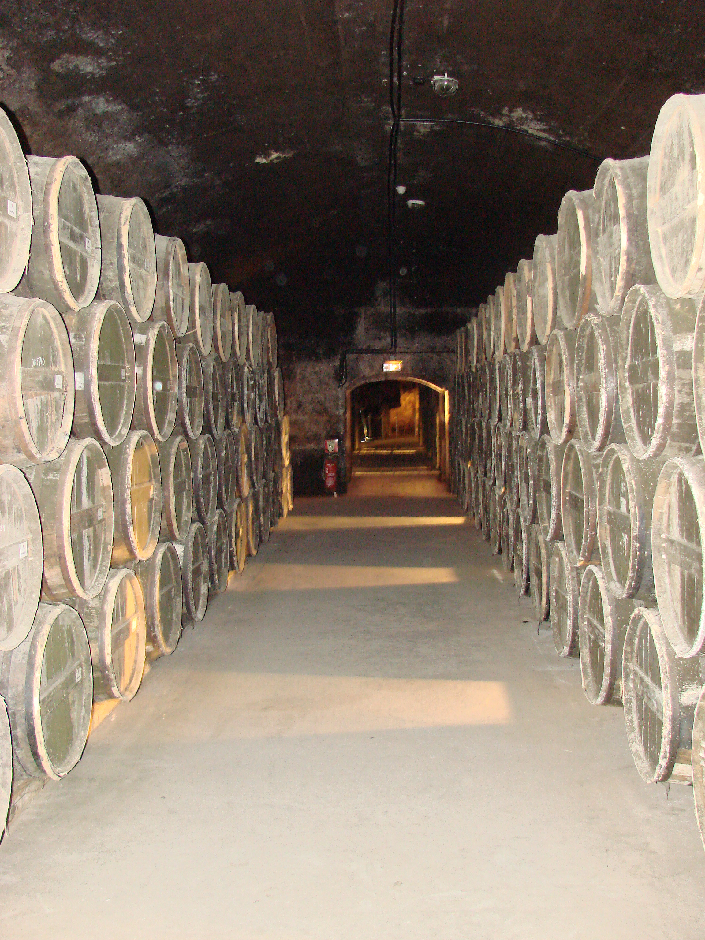 A cognac cellar with stored barrels. The black mould is fed by the evaporation of the barrels.